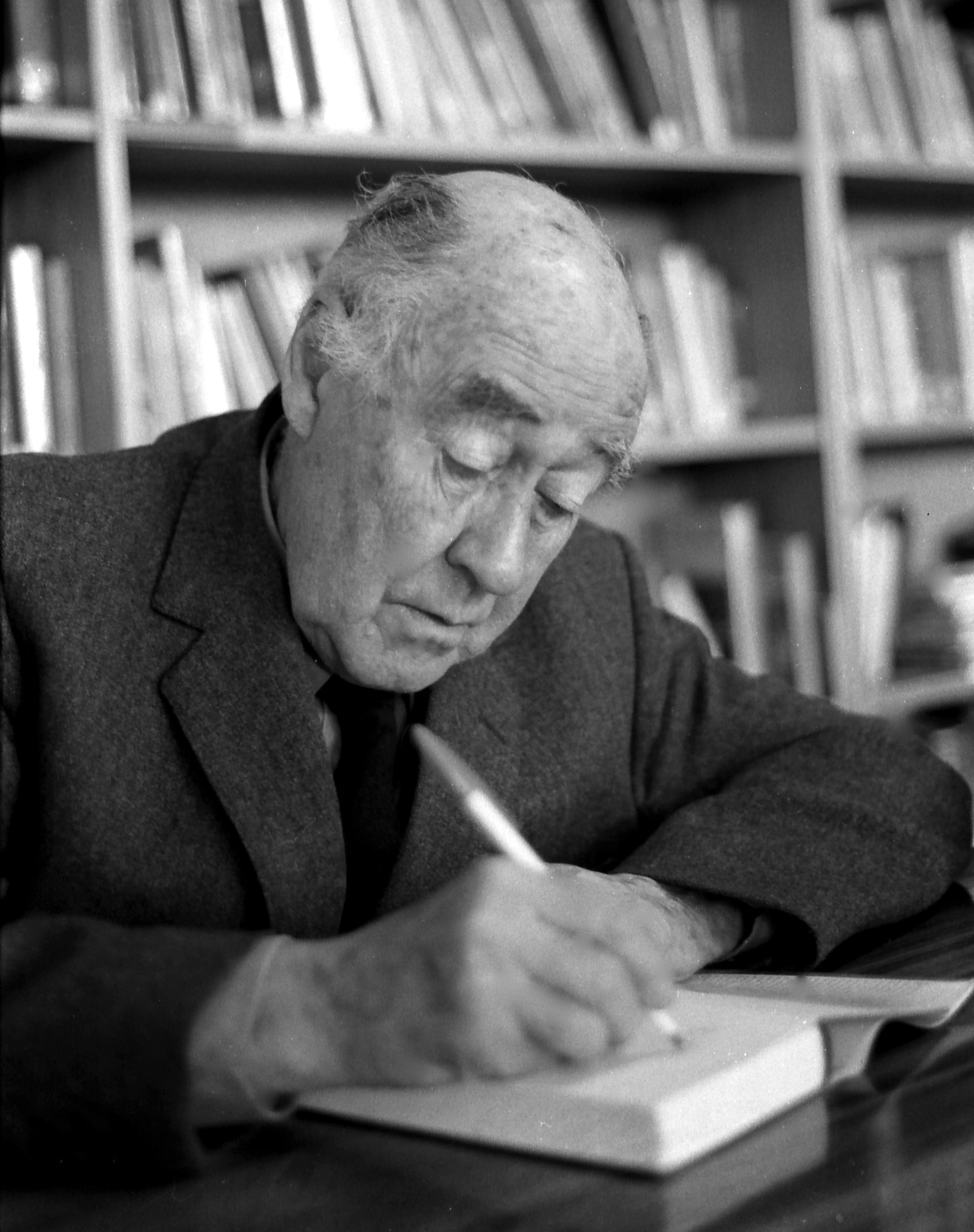 Mervyn Wall, Library, Belvedere College S.J. 1990.